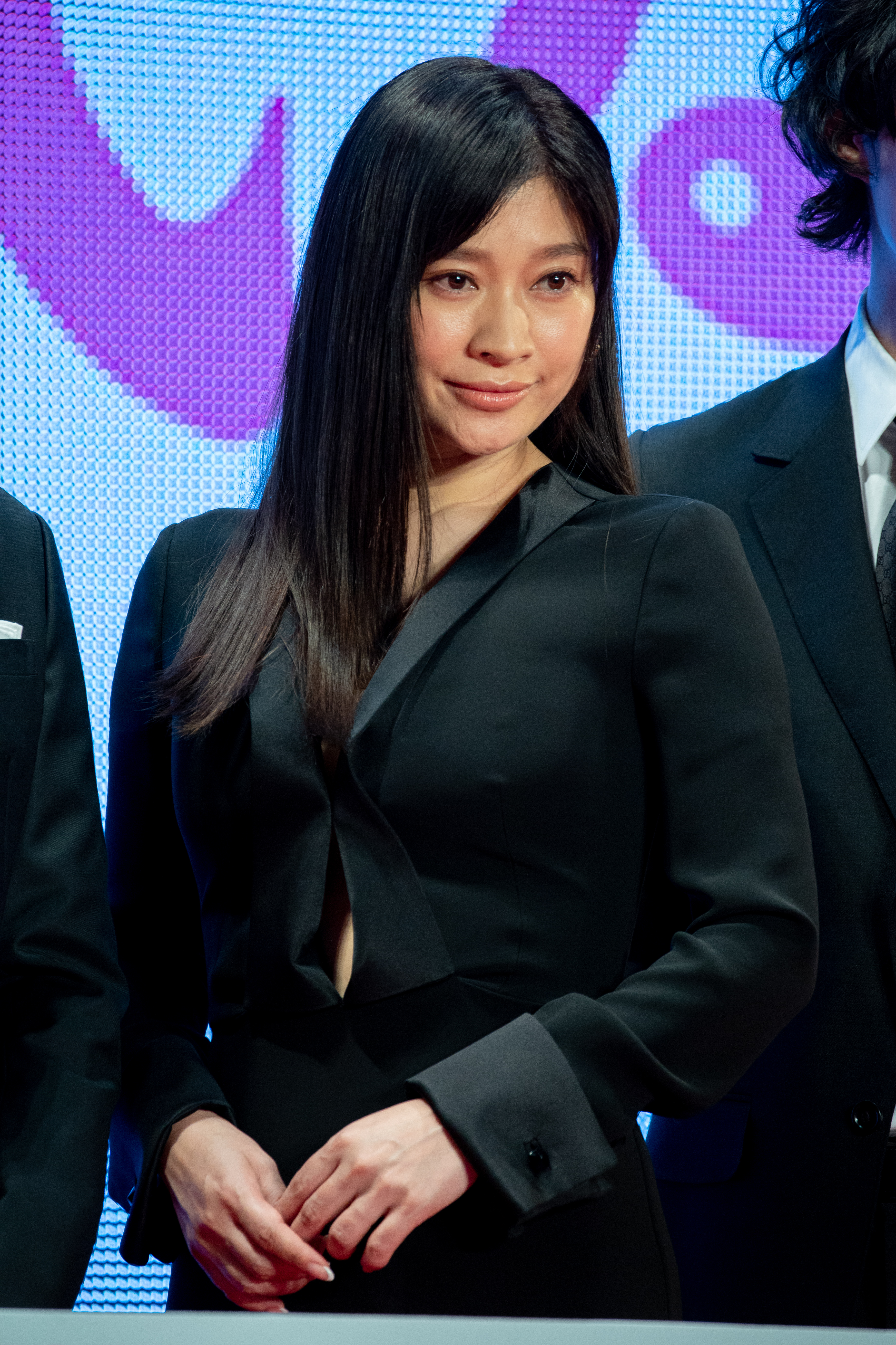 Shinohara Ryoko from "The House Where the Mermaid Sleeps" World Premiere Red Carpet of the Tokyo International Film Festival 2018 第30回 東京国際映画祭 人魚の眠る家 レッドカーペットイベント 篠原涼子